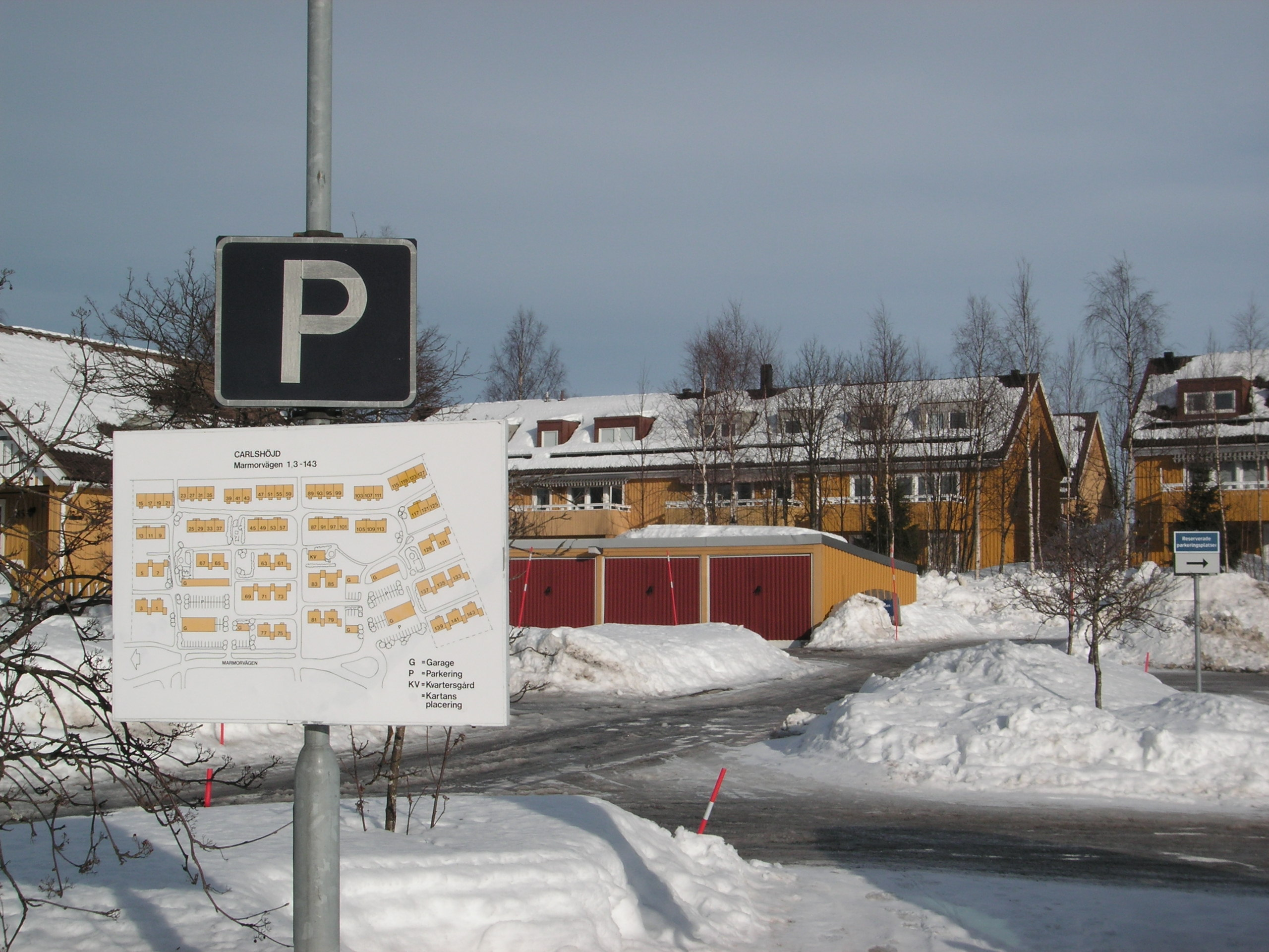 Terraced houses on Carlshöjd, Umeå, Sweden.